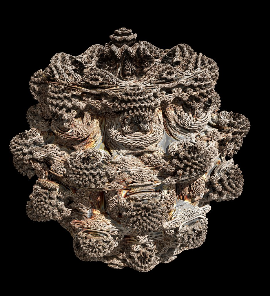 Three-dimensional fractal (ie mandelbulb) of power 9 created by Visions of Chaos program